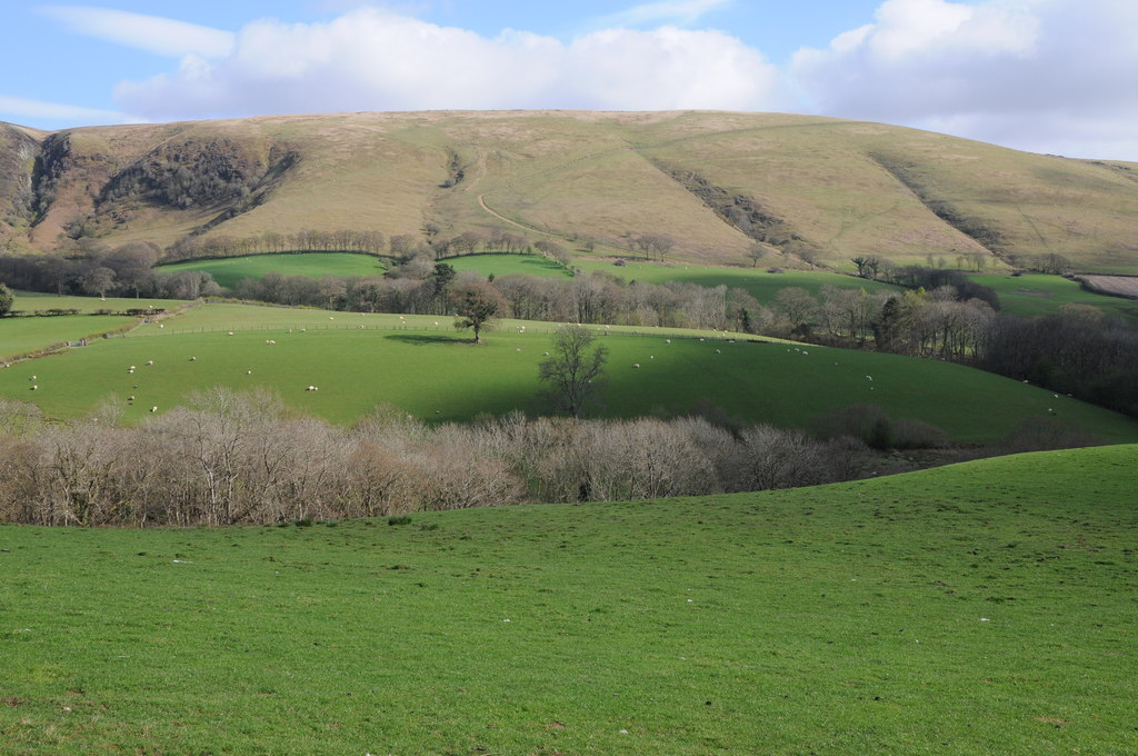 View to Mynydd Myddfai